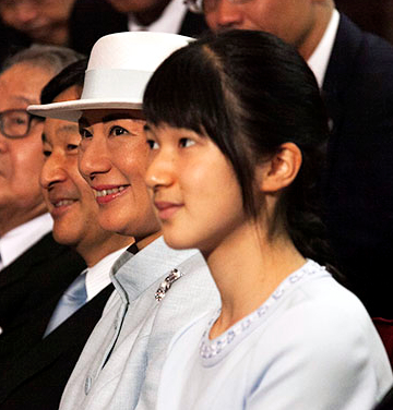 Crown Prince Naruhito, Crown Princess Masako and Princess Aiko attended the Convention for Thinking about the Water at the Science Museum in Chiyoda Ward, Tōkyō Metropolis on August 1, 2016.